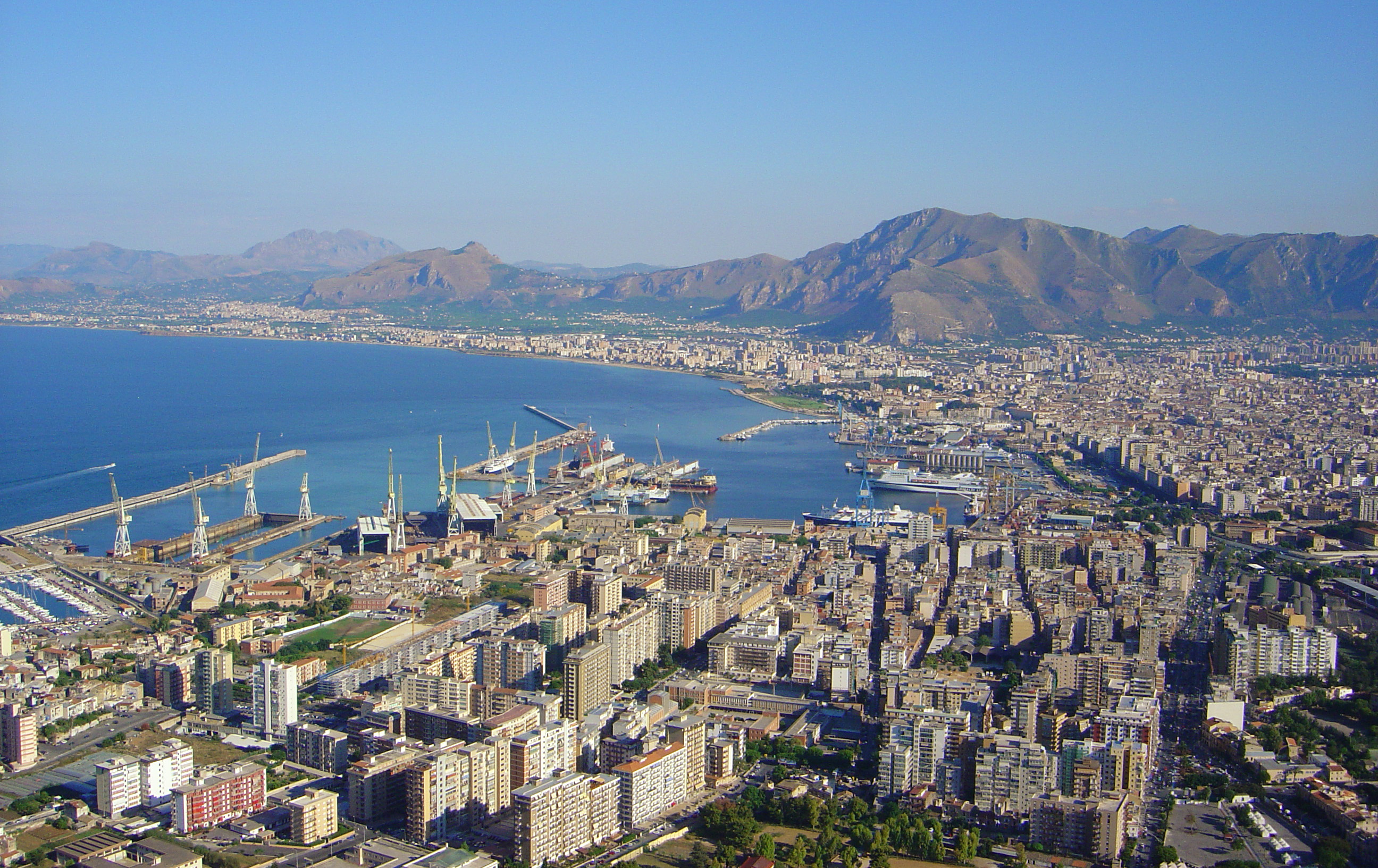 On one morning in the mid 11th Century, Norman Knights under Count Roger de Hautville, brother of Robert Guiscard who already ruled much of Italy south of Naples, camped on these hills surrounding Palermo, then a Saracen city. With a Papal banner flying, the knights rode though the orange groves and pleasure gardens of the city to take control of Palermo and then all Sicily. There then began a period of rare, enlightened government in Medieval history when Christians, both Latins and Byzantine Orthodox, and Muslims lived in relative peace on their island in the sun.